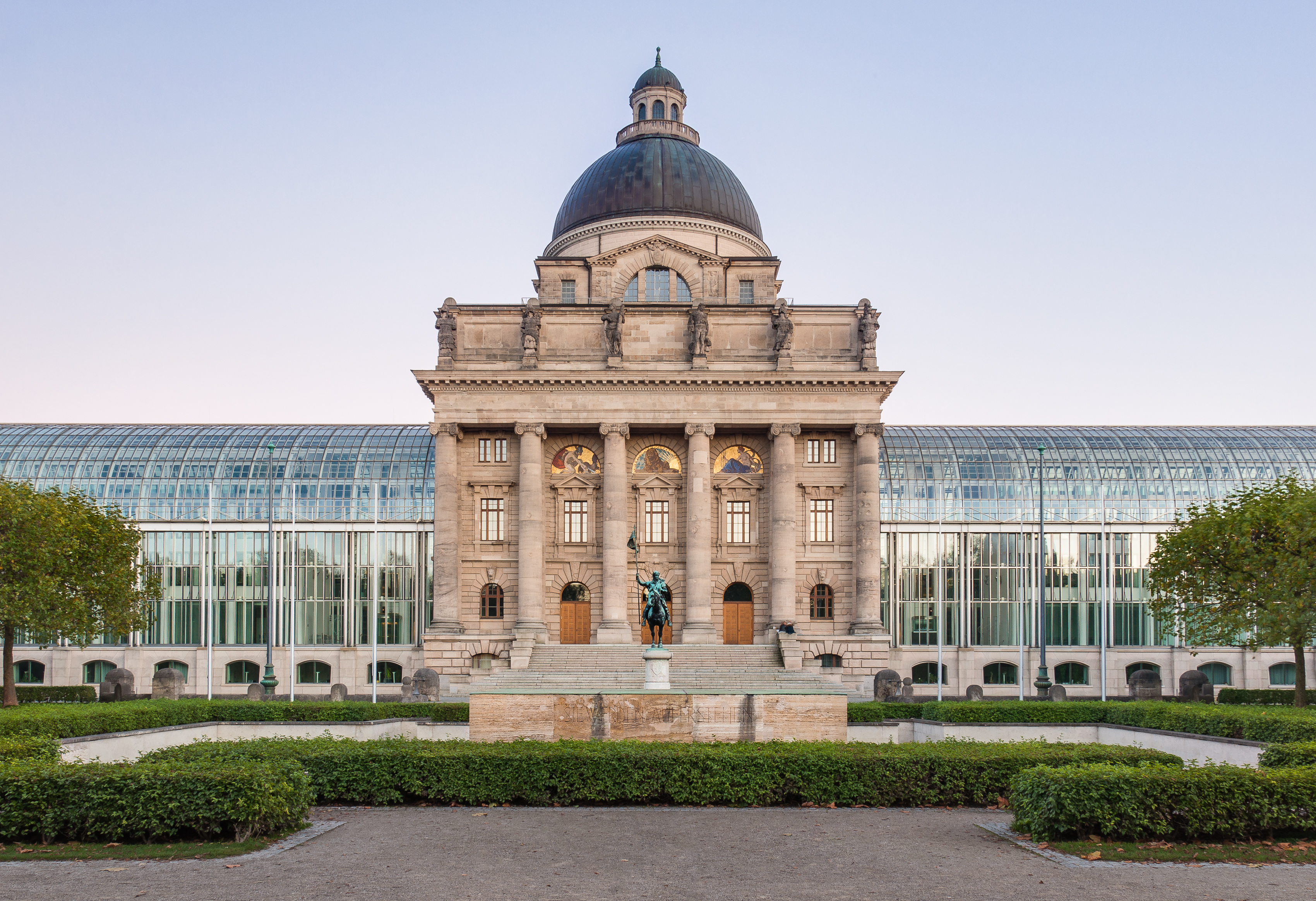 Bayerische Staatskanzlei at the eastern side of the Hofgarten, Munich, Germany.